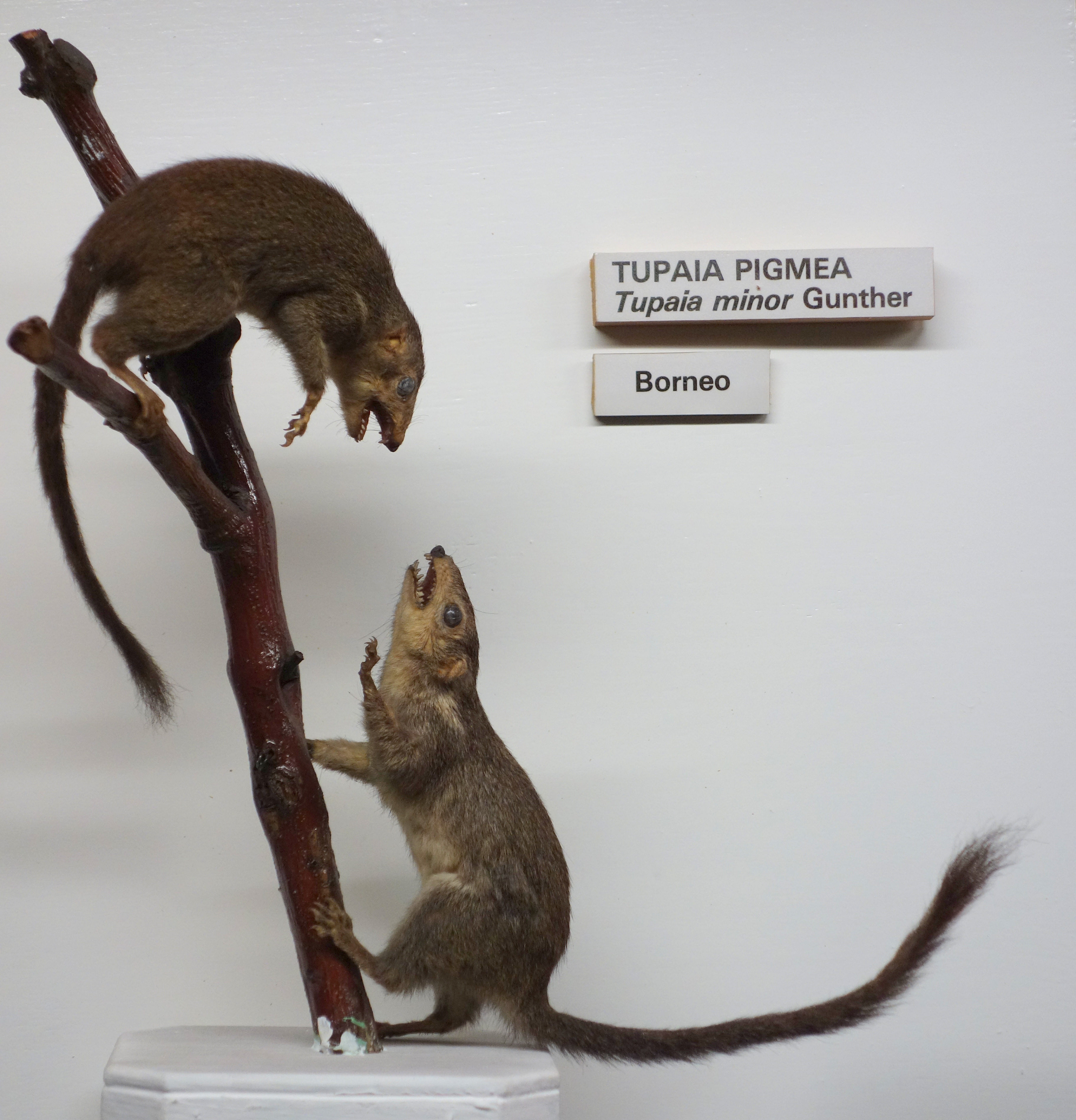 Exhibit in the Museo Civico di Storia Naturale di Genova, Via Brigata Liguria, 9, 16121, Genoa, Italy.